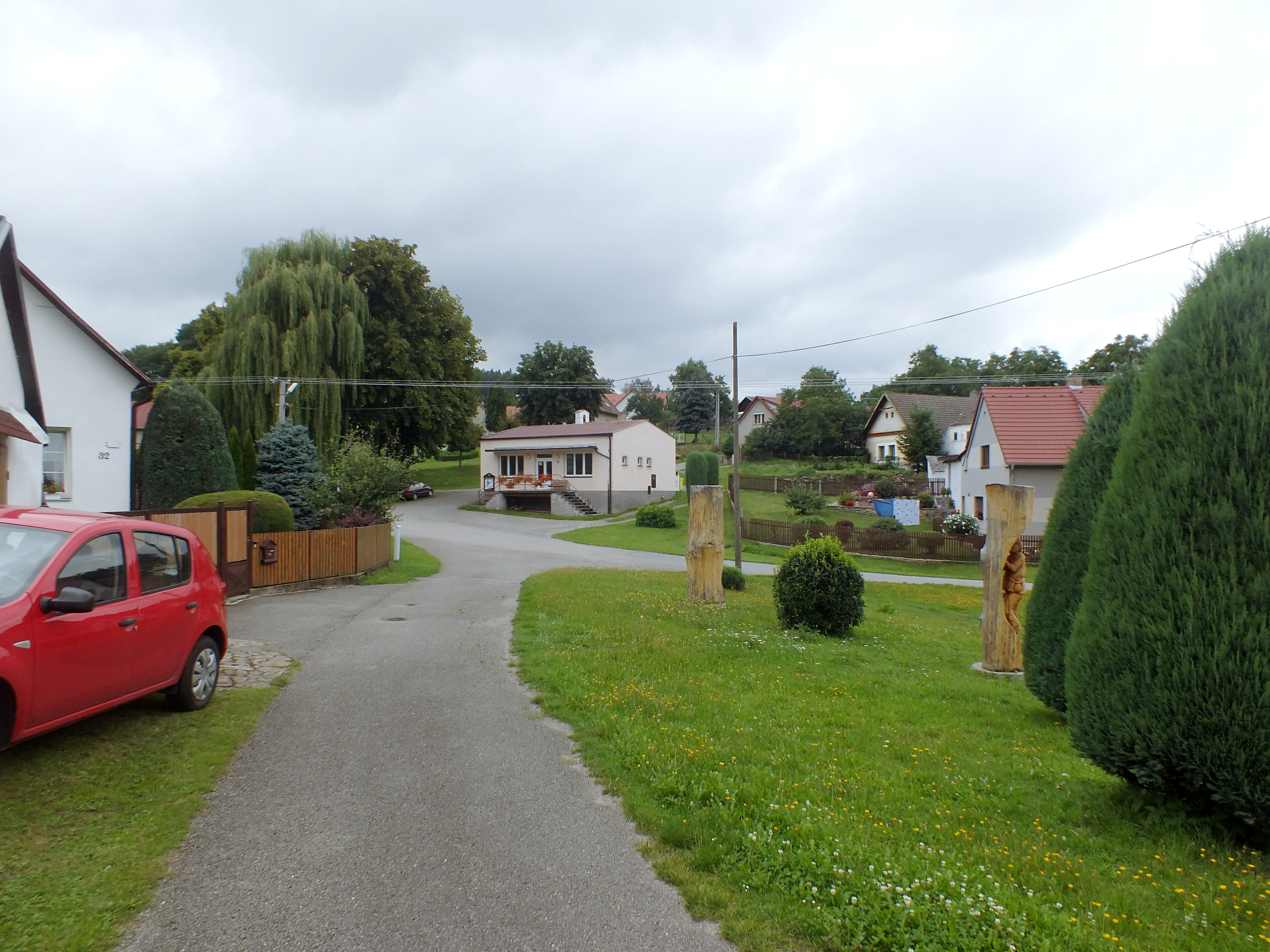 The view of the square in Řemíčov from the municipal office